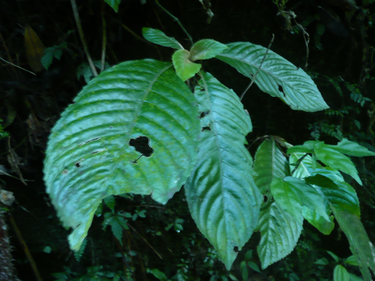 Rhynchotechum formosanum, possibly in Taiwan